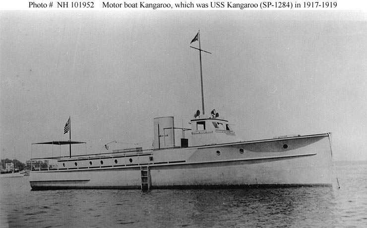 Motor boat Kangaroo just after she was completed, and prior to her 1917-1919 United States Navy service as patrol vessel USS Kangaroo (SP-1284)